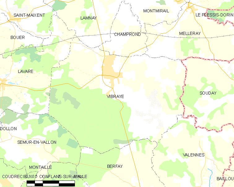 Map of French municipality